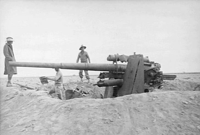 A German 88 mm FlaK 36 gun which had been used as a tank attack weapon near El Aqqaqir, Egypt. The whole crew were killed and were found buried alongside the gun. Allied Sherman and Crusader tanks can be seen on the skyline.